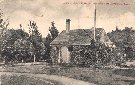 Postcard circa1914 of long-closed Hudson's Bay Company fort building long closed